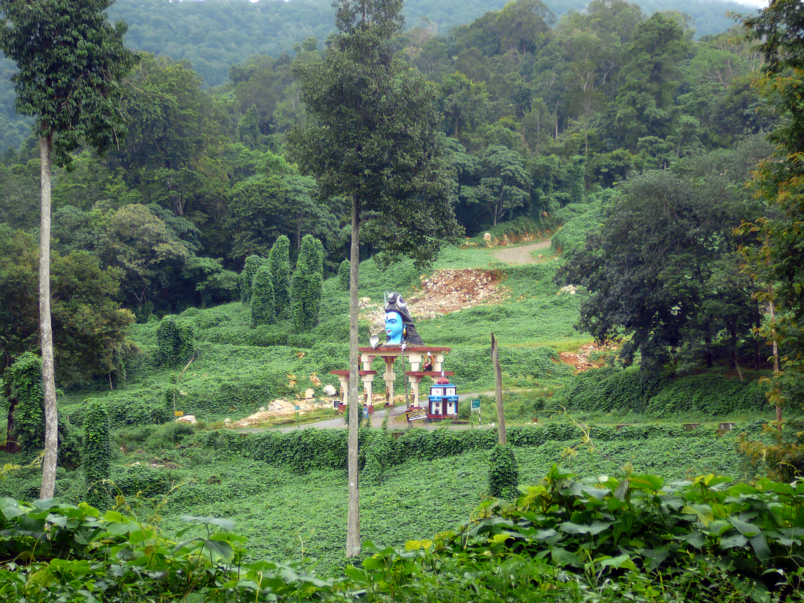 Nilackal Temple entrance on the way to sabarimala/pampa